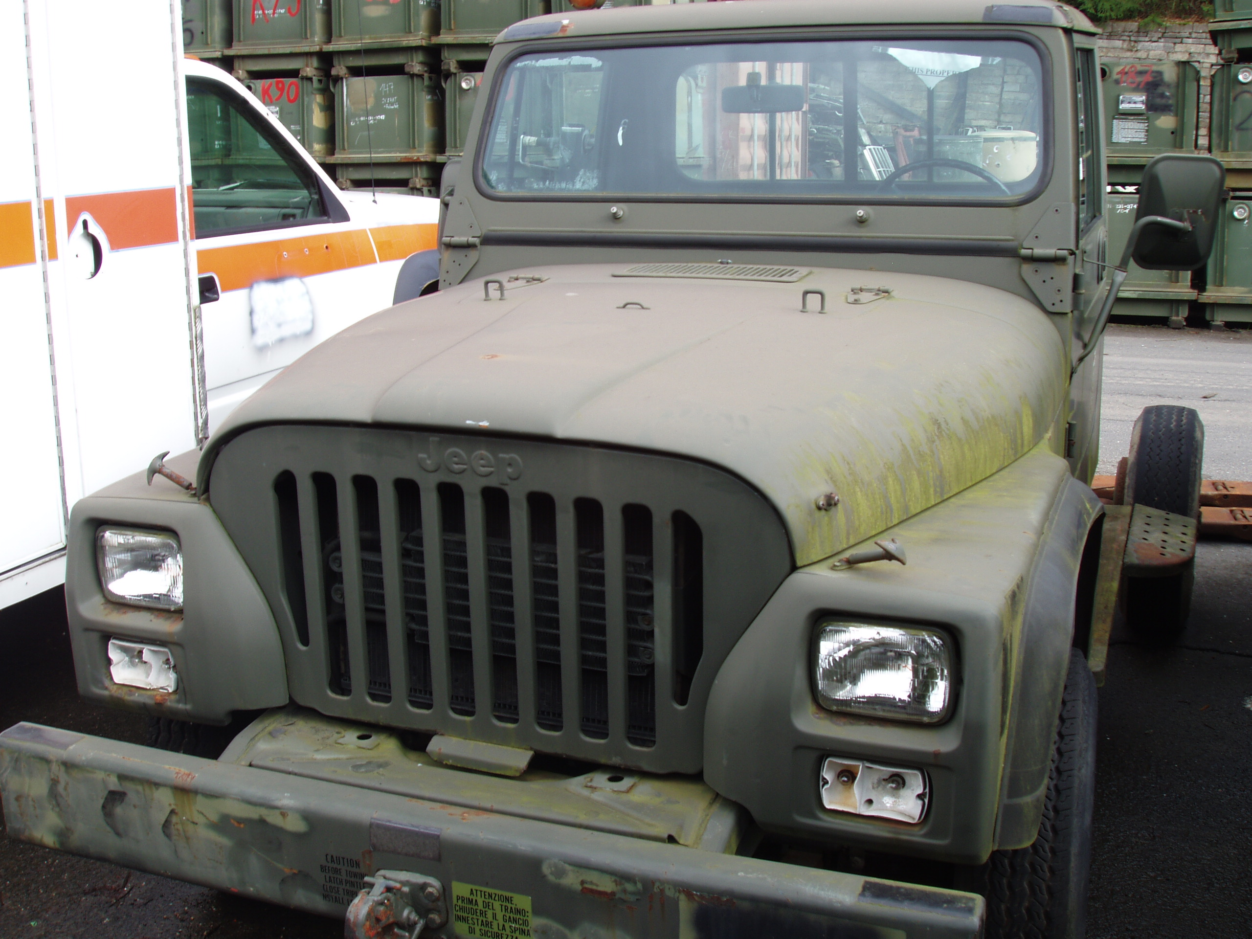 Jeep CJ 10